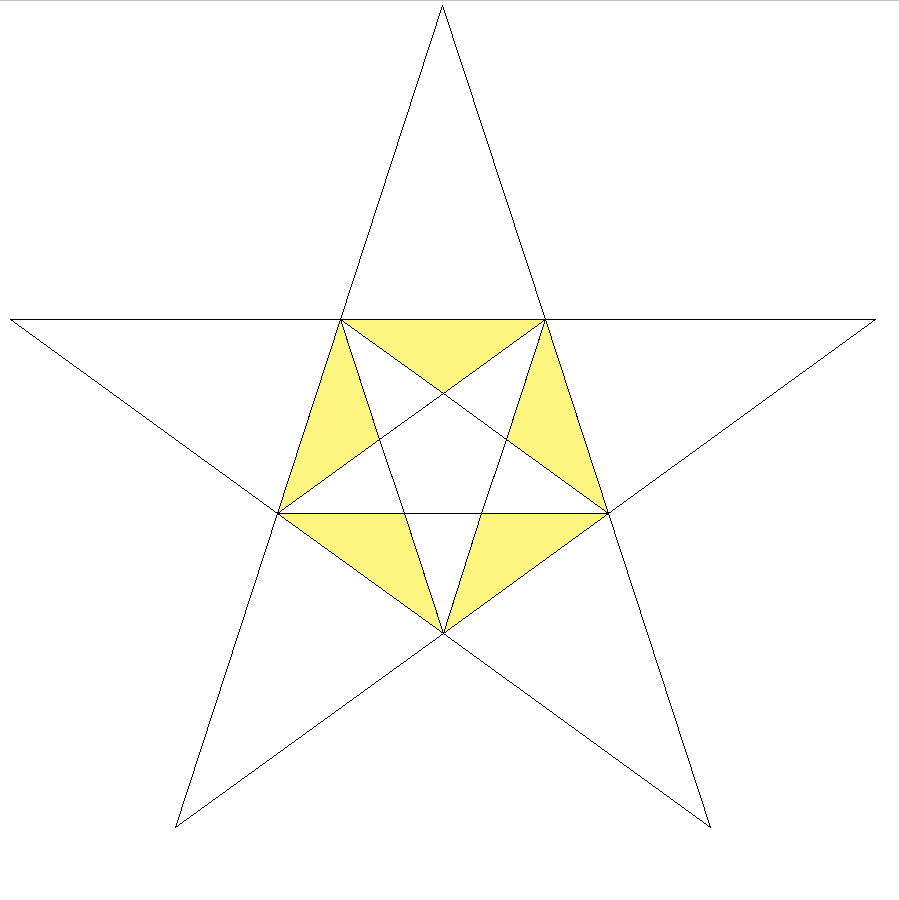 Facets of second stellation of dodecahedron